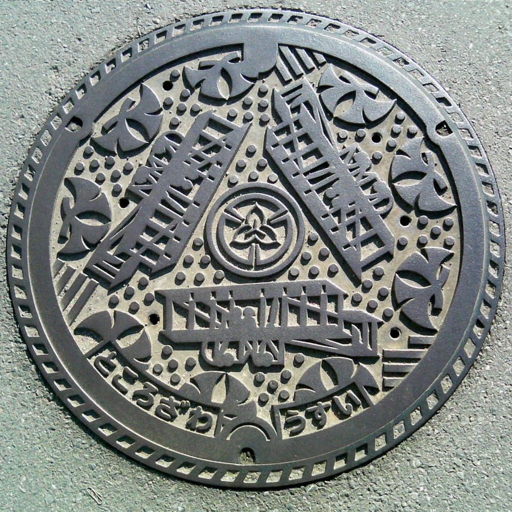 A type of manhole covers in Tokorozawa city, Japan. the biplane is 1910's FarmanⅢ, a French biplane, which is officialy the first powered aircraft in Japan.